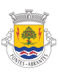 Coat of arms of Fontes